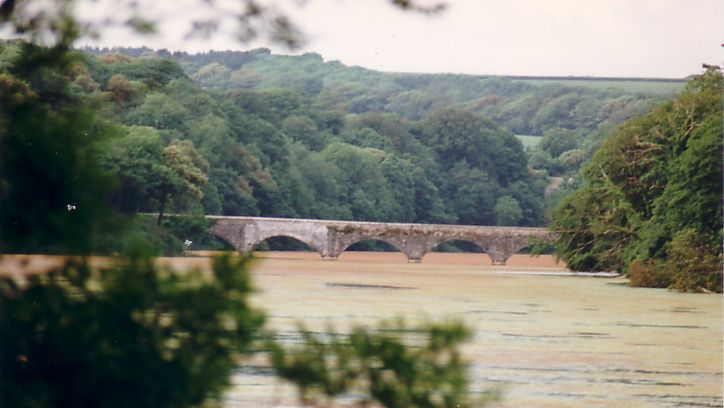 view onto Eight-Arch Bridge - Lilyponds - Bosherston - Pembrokeshire